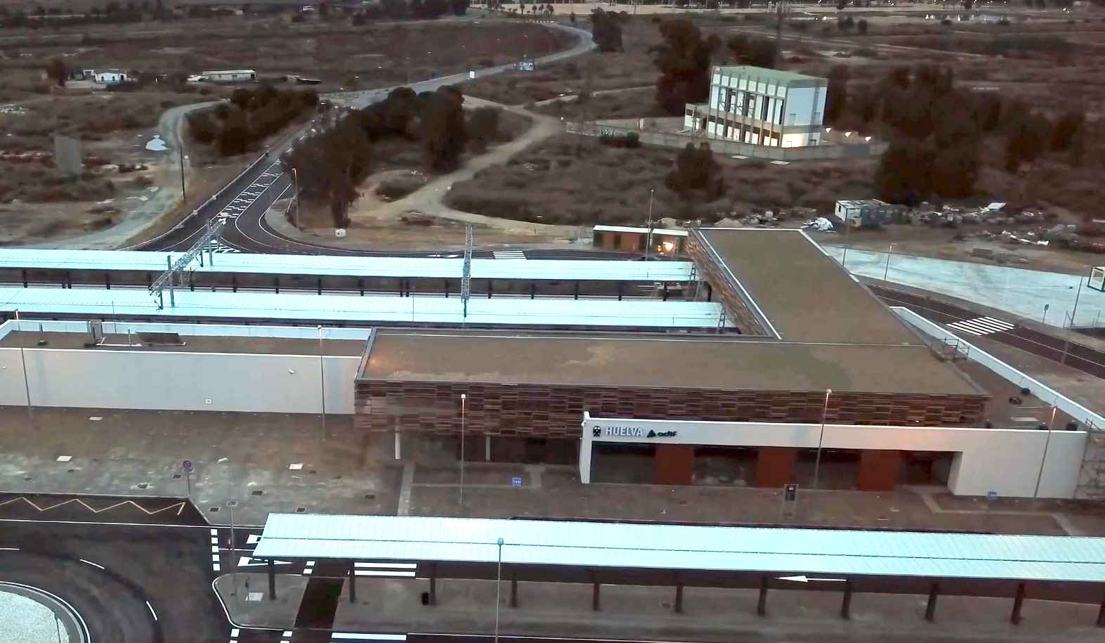 Station of Huelva Las Metas (2018 January)